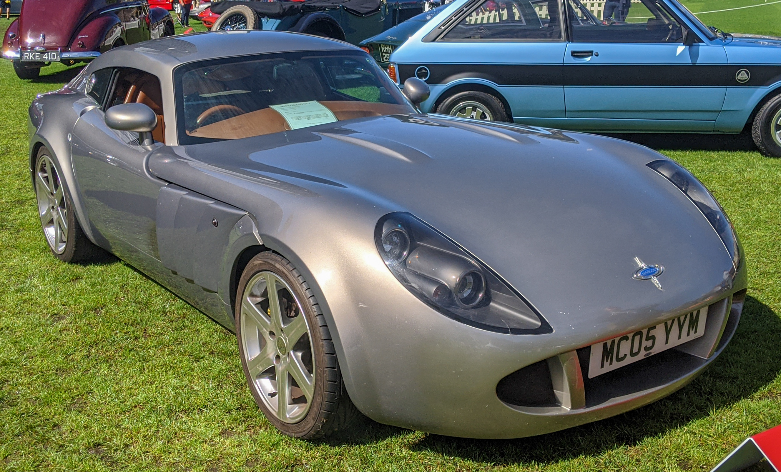 2005 Marcos TSO GT2 Prototype 5.7 Front Taken at the London Concours 2020